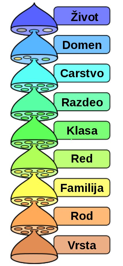 About the Domains/Kingdoms This diagram implies 3 Domains / 6 Kingdoms (Woese et al. 1990[1]): *Archaea, Domain (and Kingdom) *Eukarya, Domain **Protista, Kingdom **Fungi, Kingdom **Animalia, Kingdom **Plantae, Kingdom *Bacteria, Domain (and Kingdom) References ↑ Carl R. Woese, Otto Kandler, Mark L. Wheelis: "Towards a natural system of organisms: proposal for the domains Archaea, Bacteria, and Eucarya". Proceedings of the National Academy of Sciences of the United States of America, 87(12):4576-9.